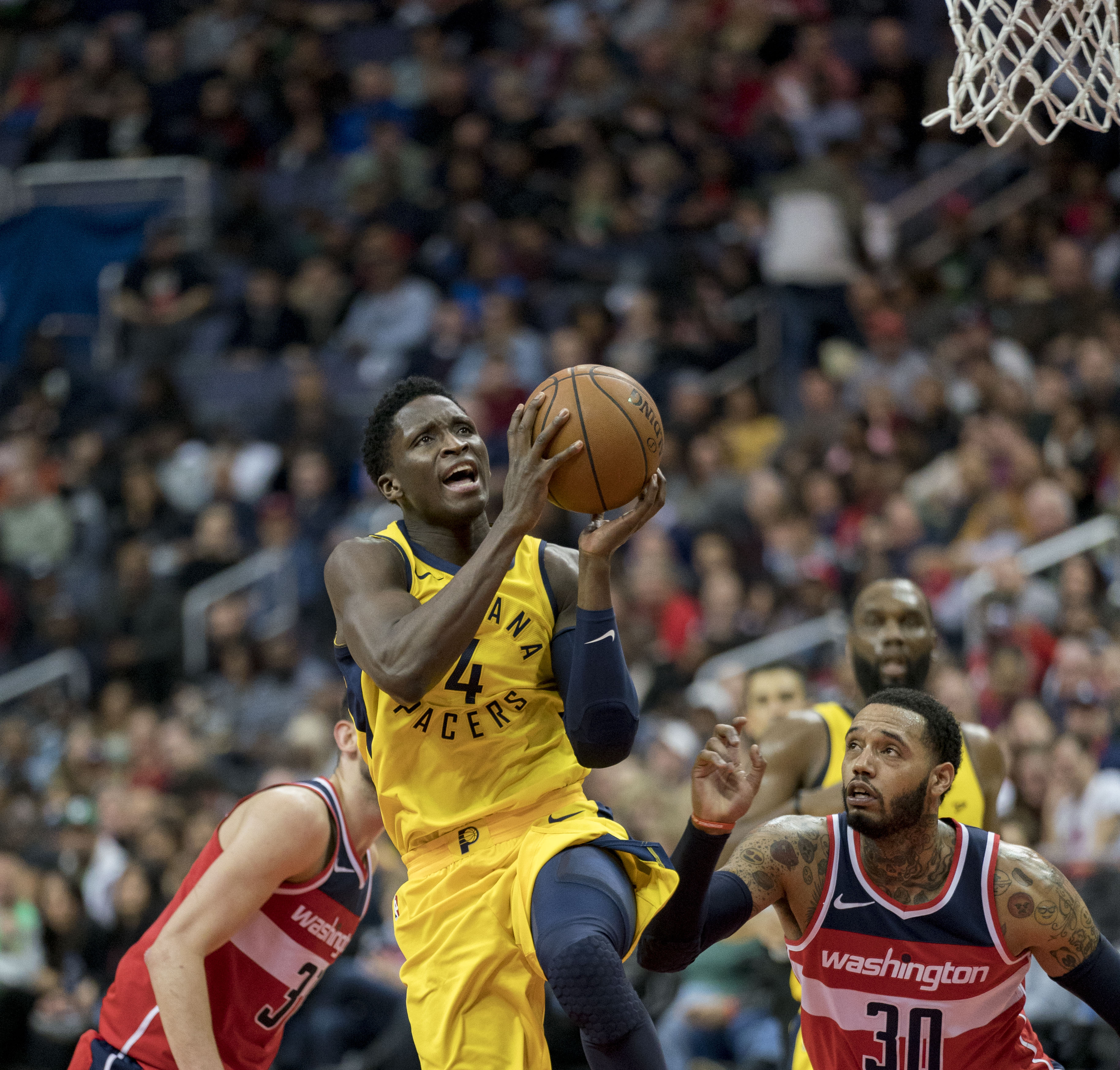 Pacers at Wizards 3/17/18